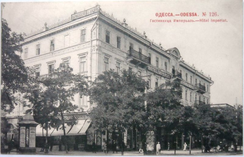 Old Odessa Carta Postale «Hotel Imperial», 1902